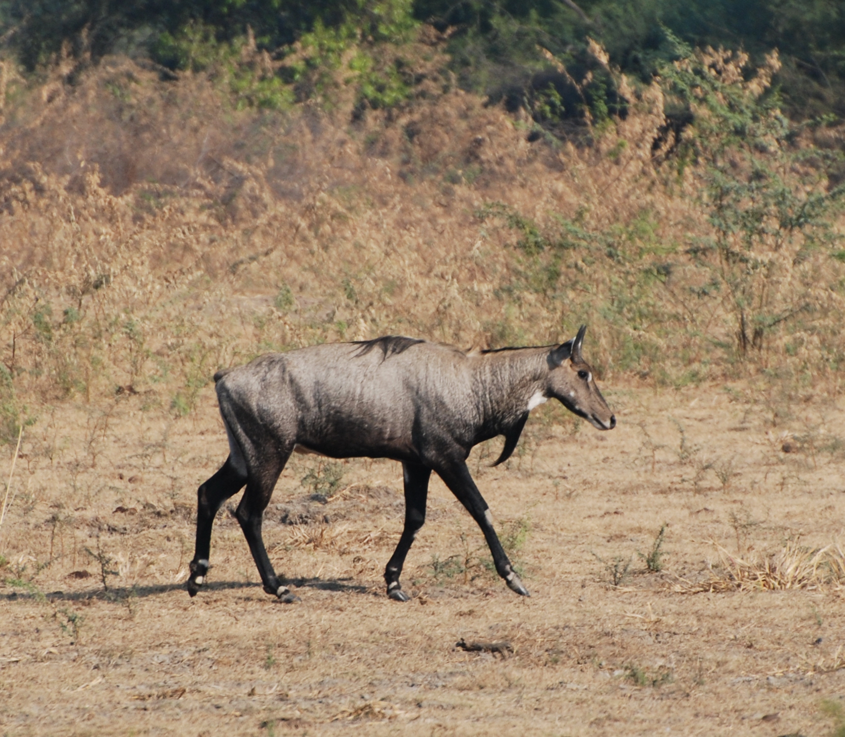 Nilgai (Boselaphus tragocamelus) in the important bird area Bharatpur, North India